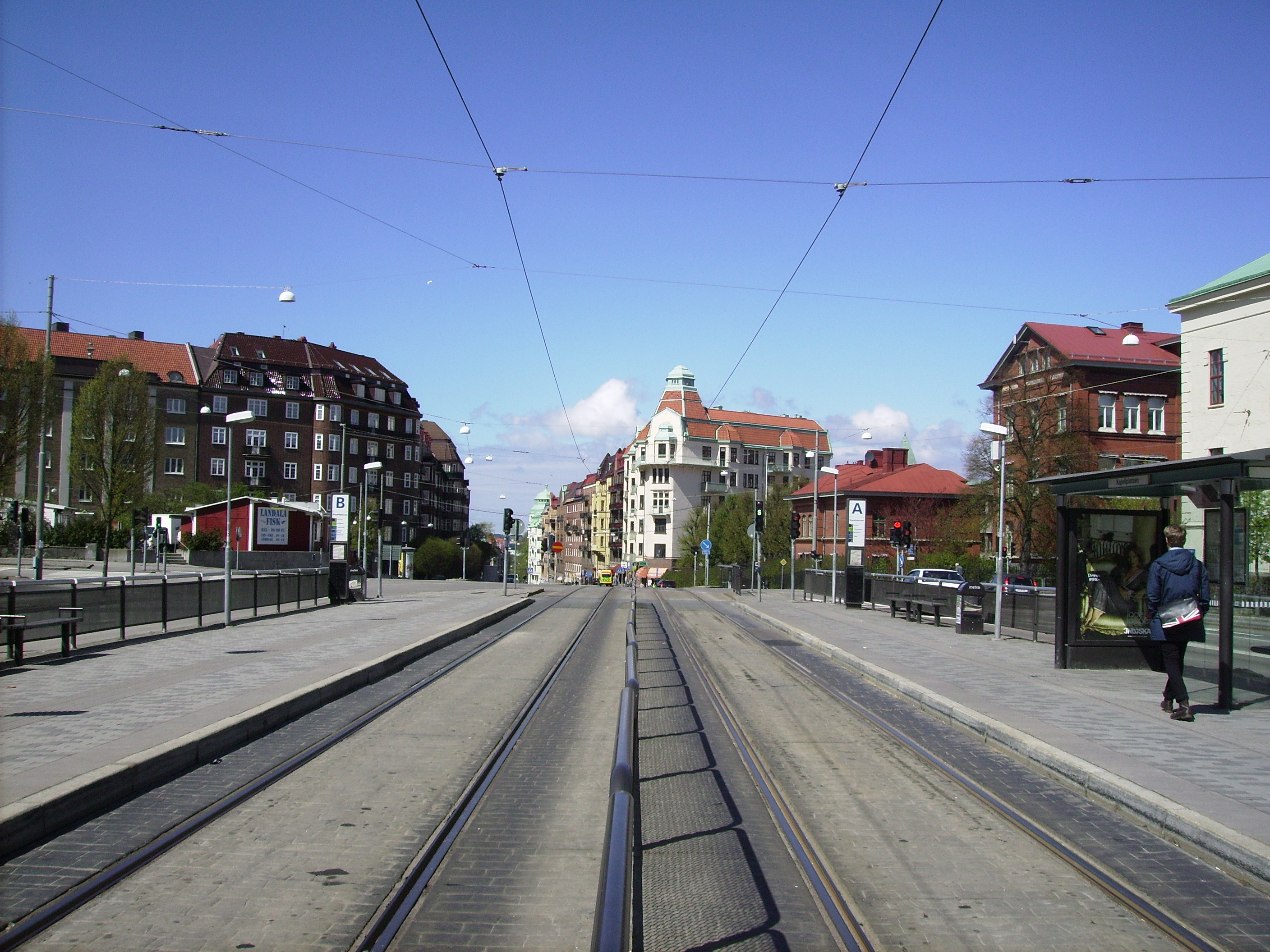 Picture of Aschebergsgatan in Göteborg